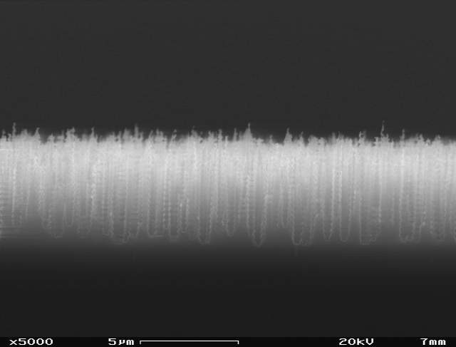 Scanning electron microscope (SEM) picture of a single silicon spike (as in black silicon) after a deep reactive ion etch process of silicon